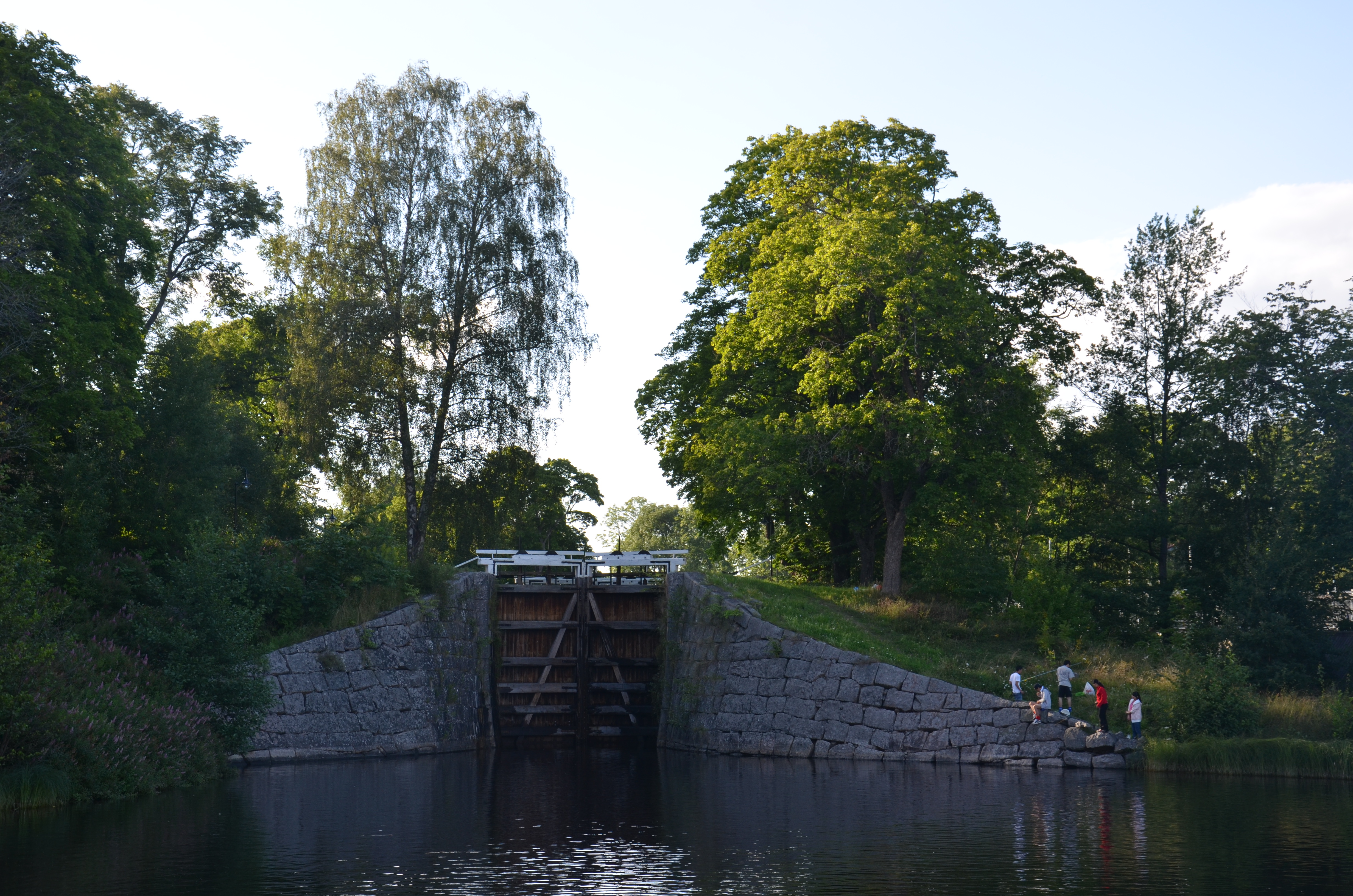 Västanfors sluss